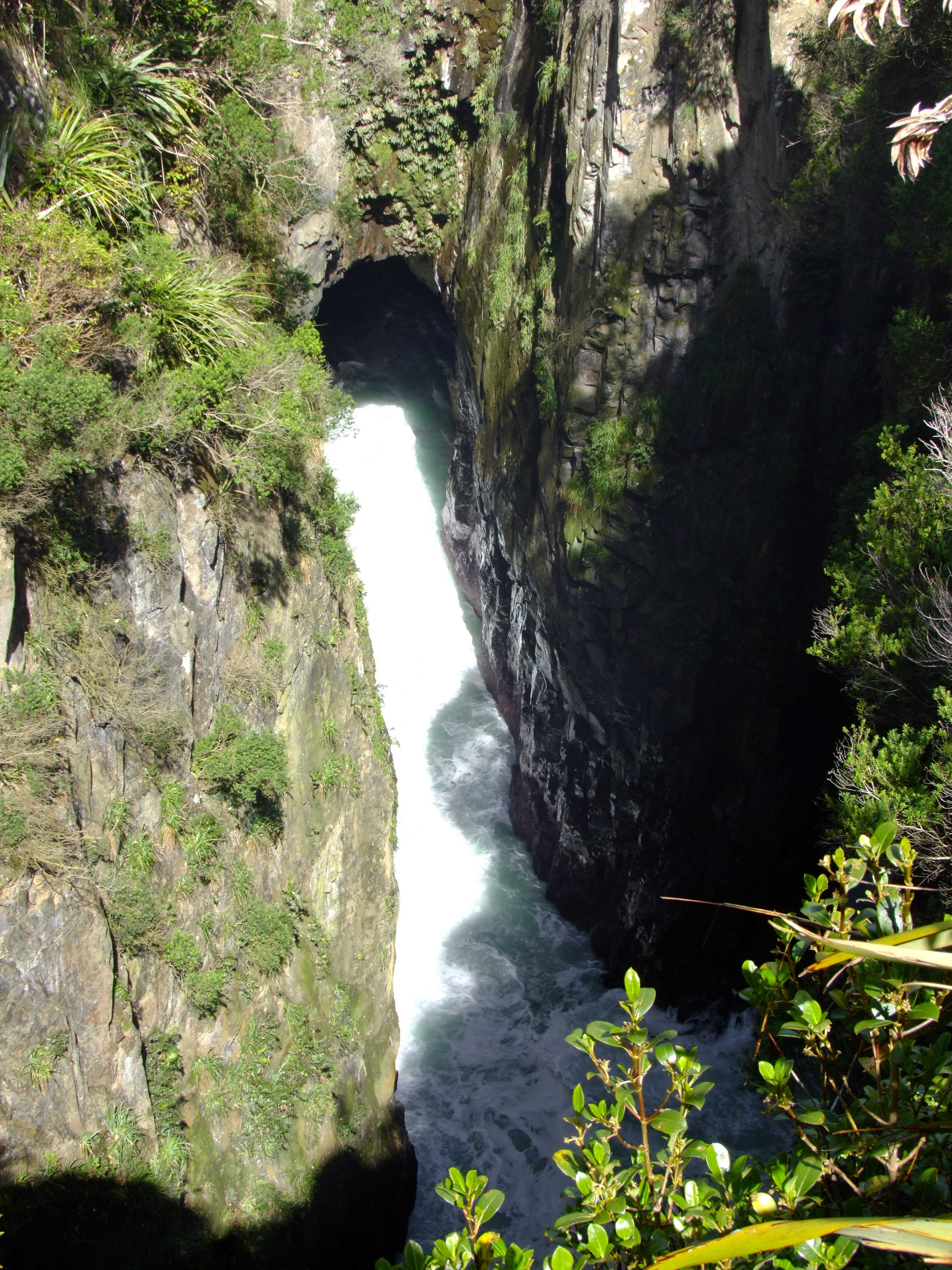 Jack's Blowhole in the Catlins of New Zealand